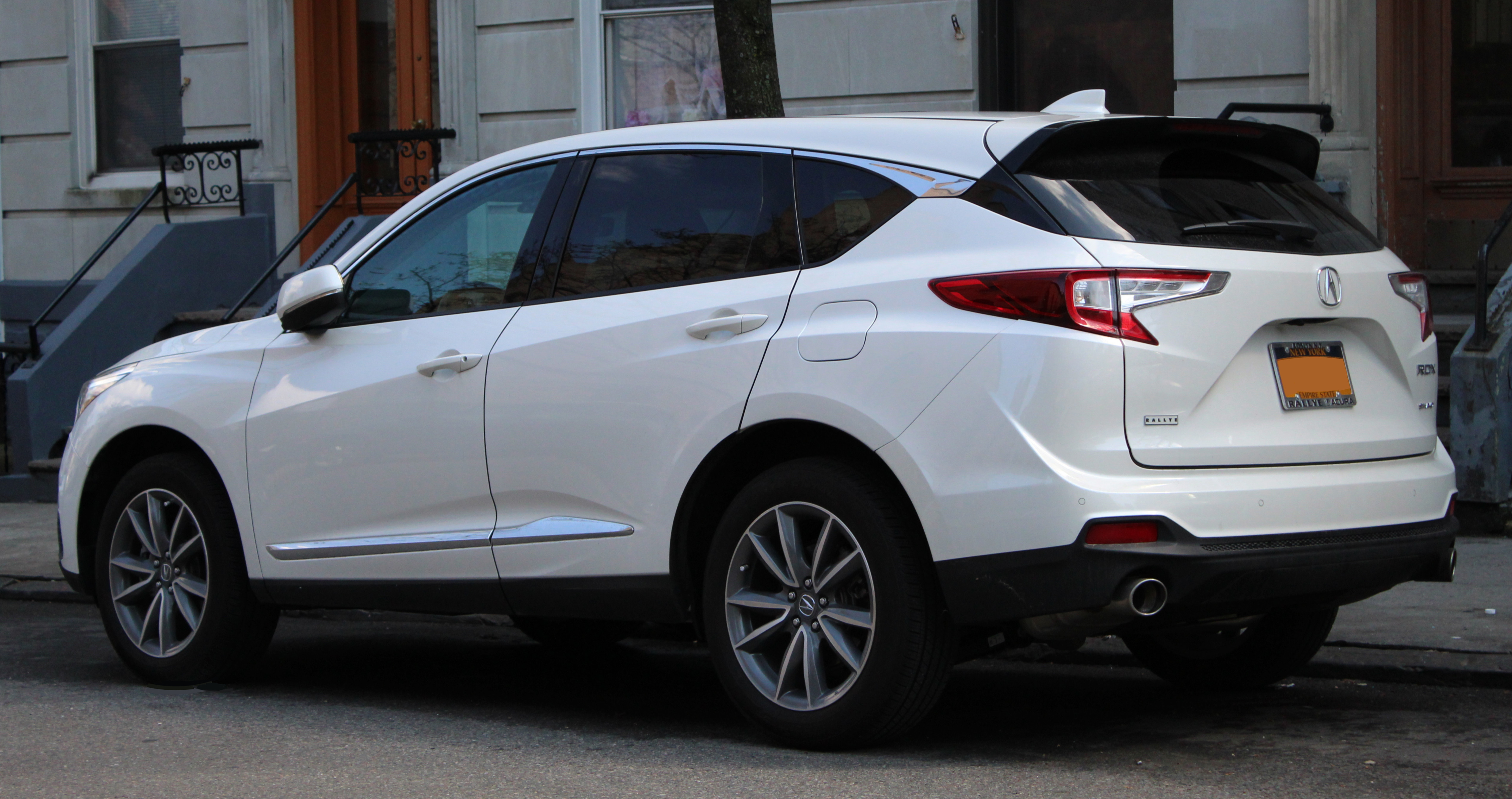 A 2019 Acura RDX photographed in Greenpoint, Brooklyn, New York, USA